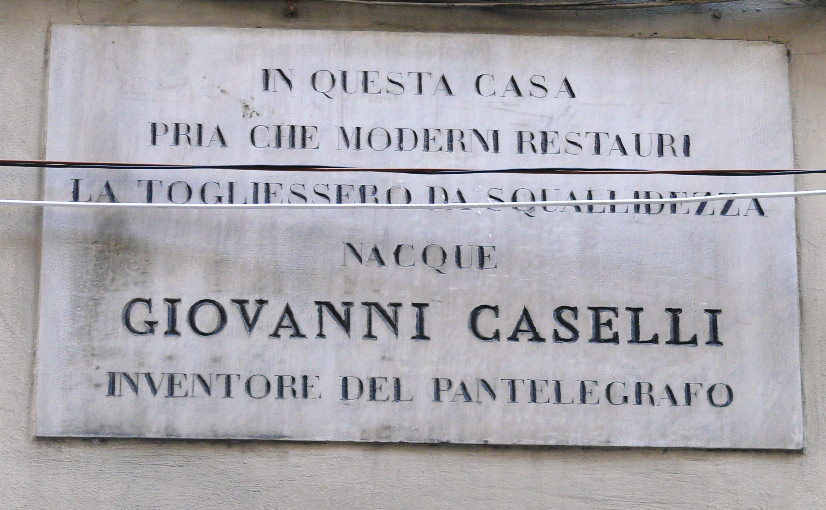 birth place of Giovanni Caselli in Siena, Italy